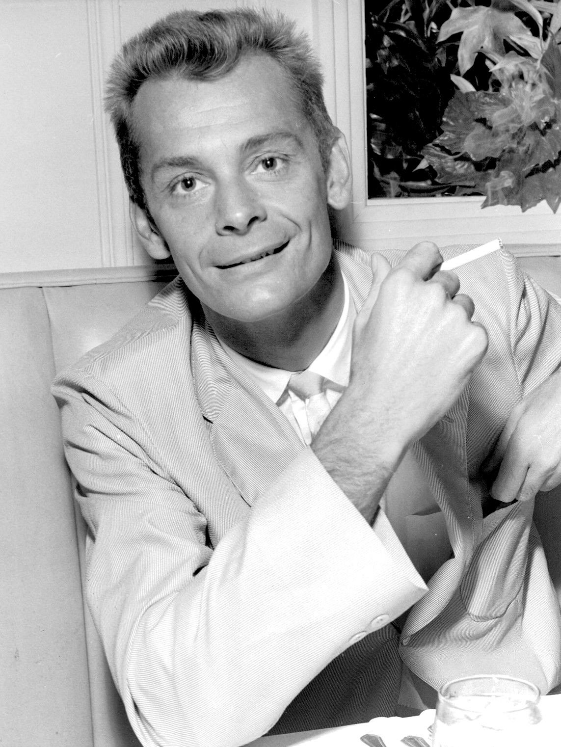 Carleton Carper in 1962